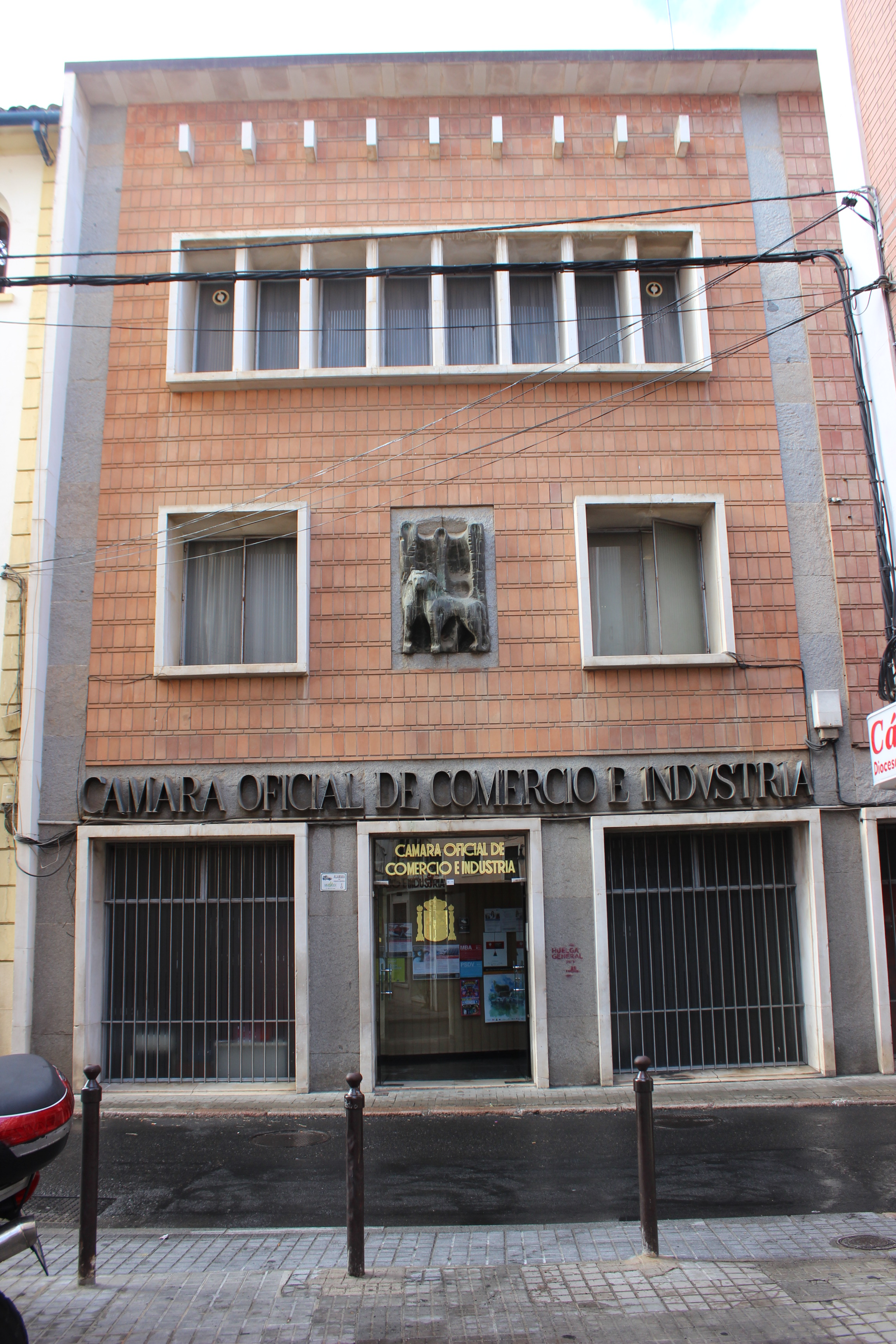 Building Facade